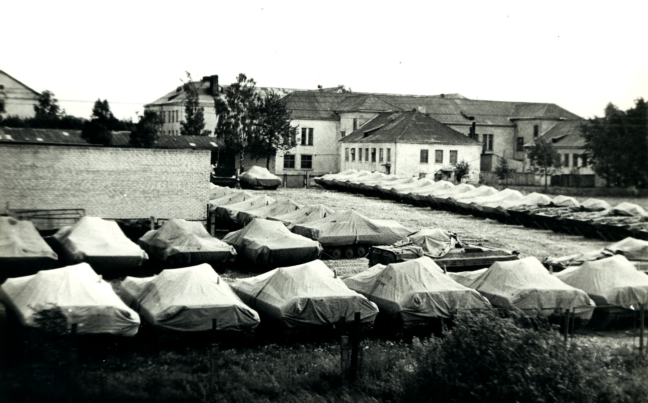 Soviet tanks in Plungė, Lithuania